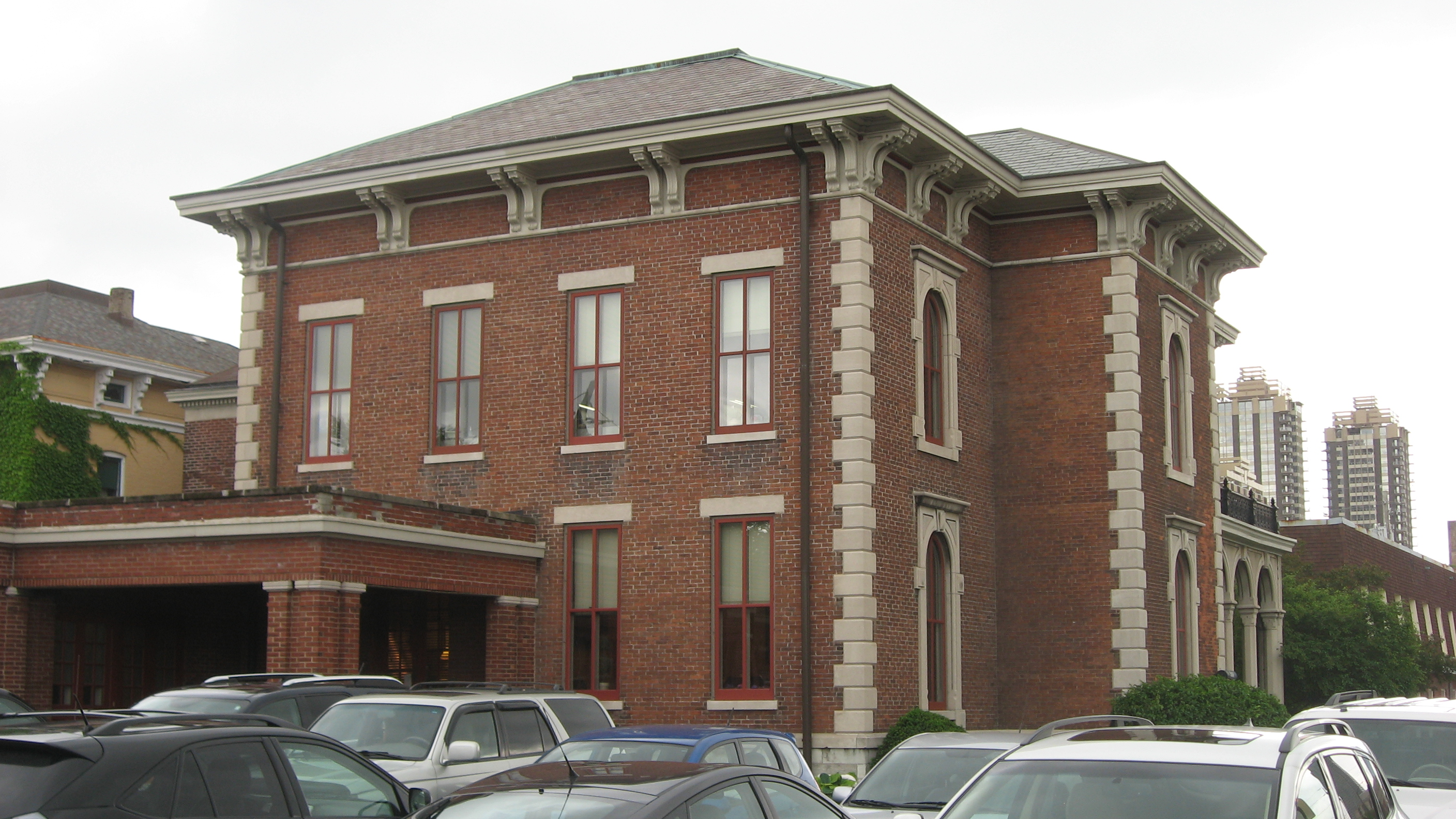 Rear and western side of the Bals-Wocher House, located at 951 N. Delaware Street in Indianapolis, Indiana, United States. Built in 1869 and since converted to law offices, it is listed on the National Register of Historic Places, and it is part of a Register-listed historic district, the St. Joseph Neighborhood Historic District.